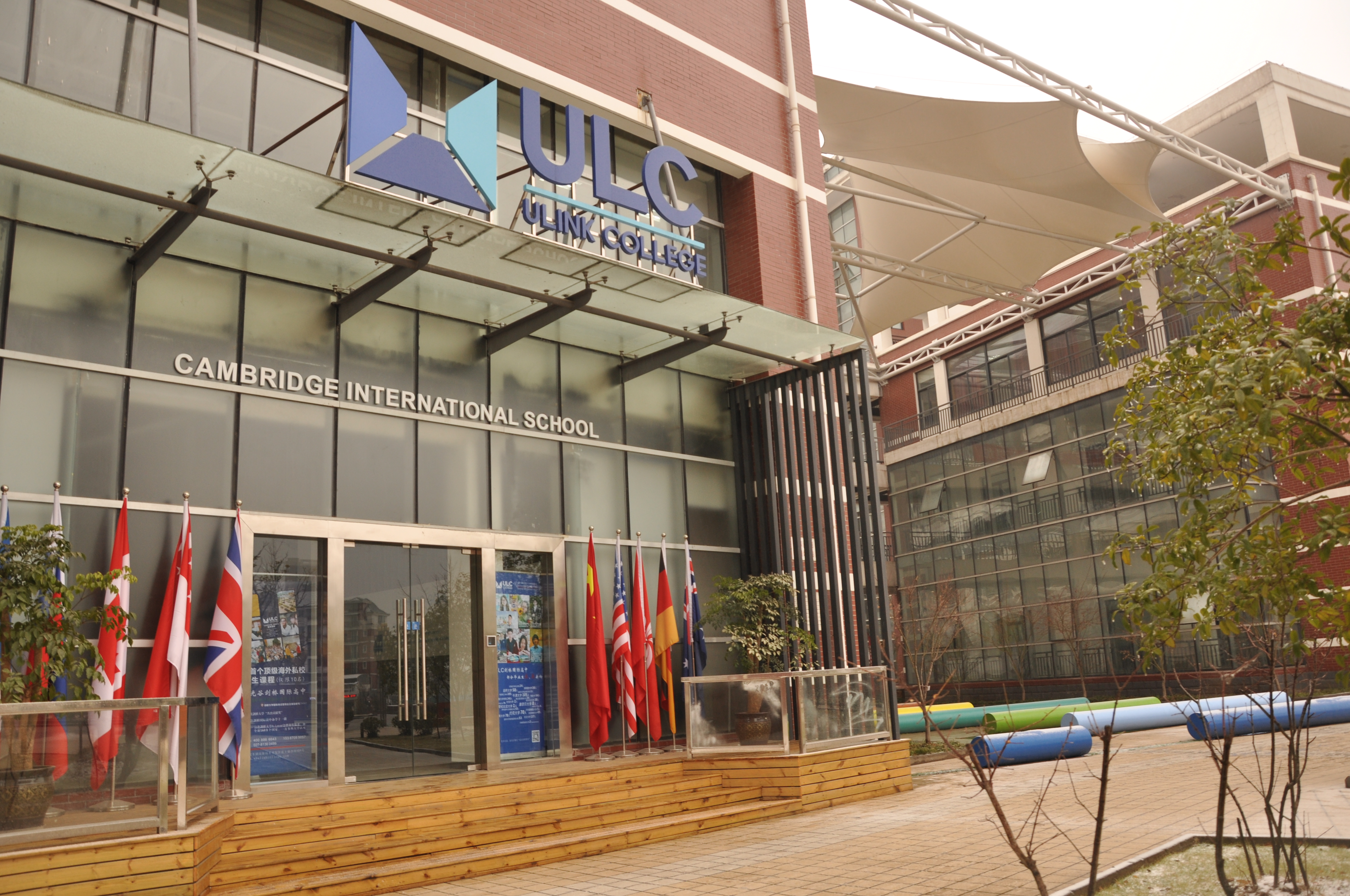 approved by Ulink College to be used in Wikipedia